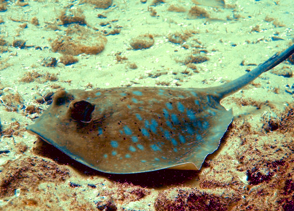 A Blue-spotted Maskray (Dasyatis kuhlii) among coral rubble. Green Island, South West Rocks, NSW181565294